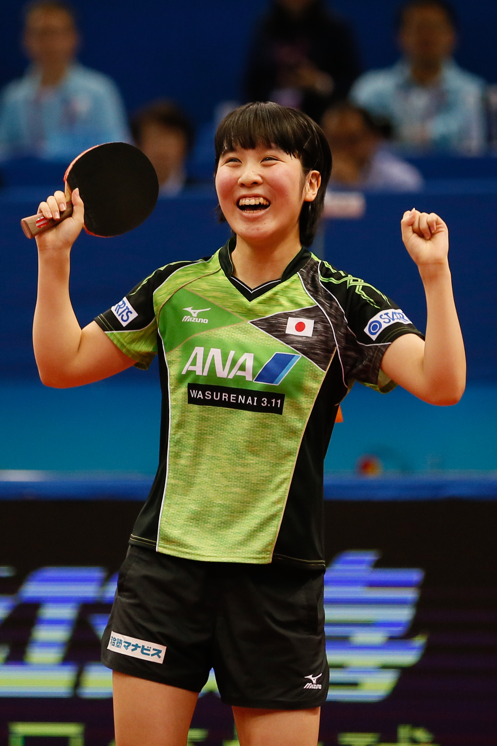 Miu Hirano immediately after winning the 2017 Asian Table Tennis Championships women's singles